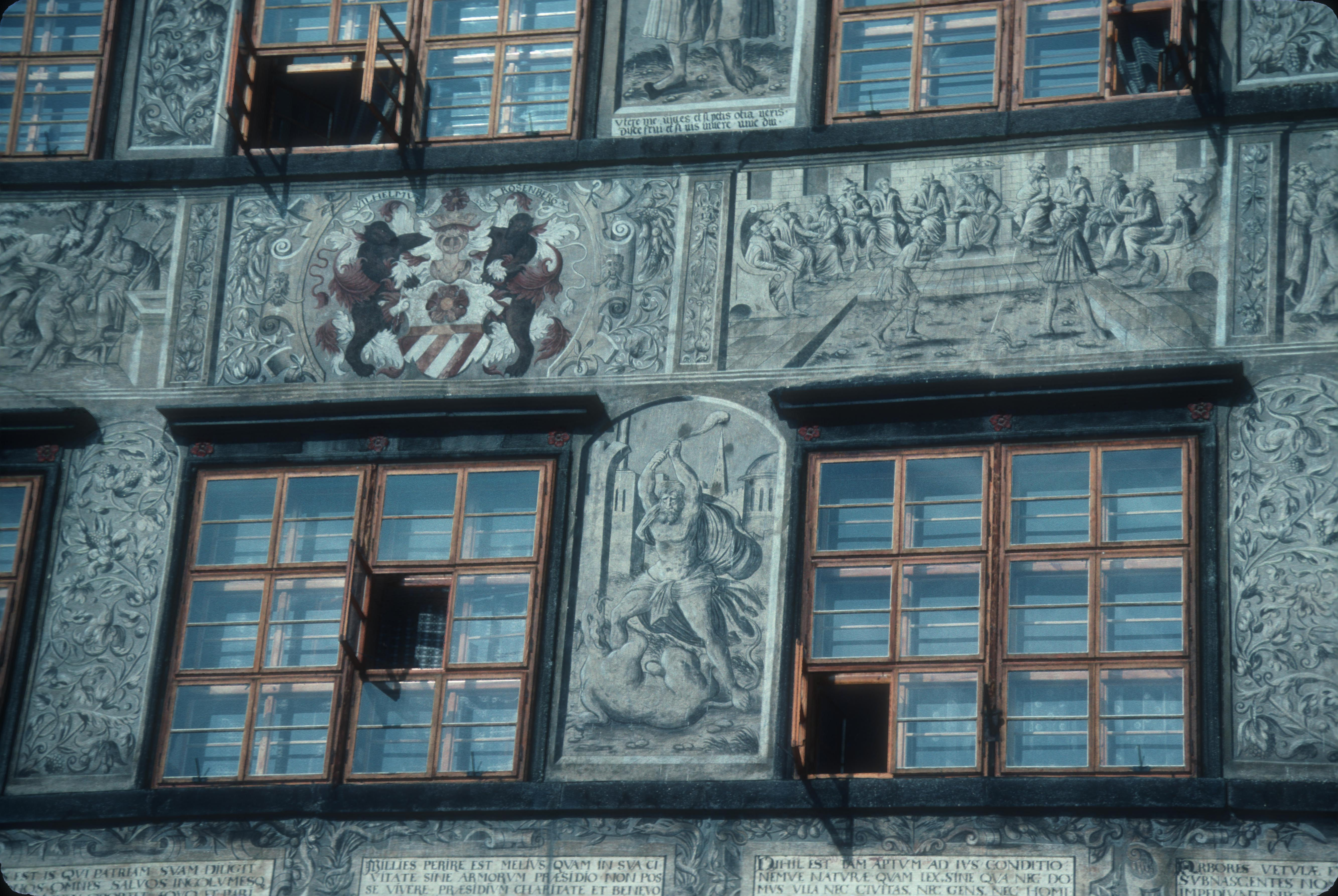 Solnice (salt hall) on the main square in Prachatice, built in 1571 by Wilhelmus von Rosenberg (1535-1592), Burggraf in Bohemia.